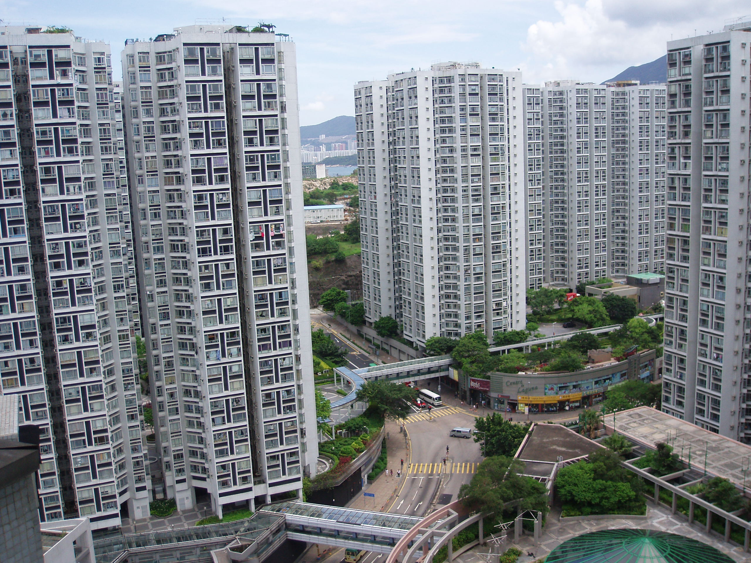 Phase 2 & 3, Laguna City (Victoria Harbour at back)